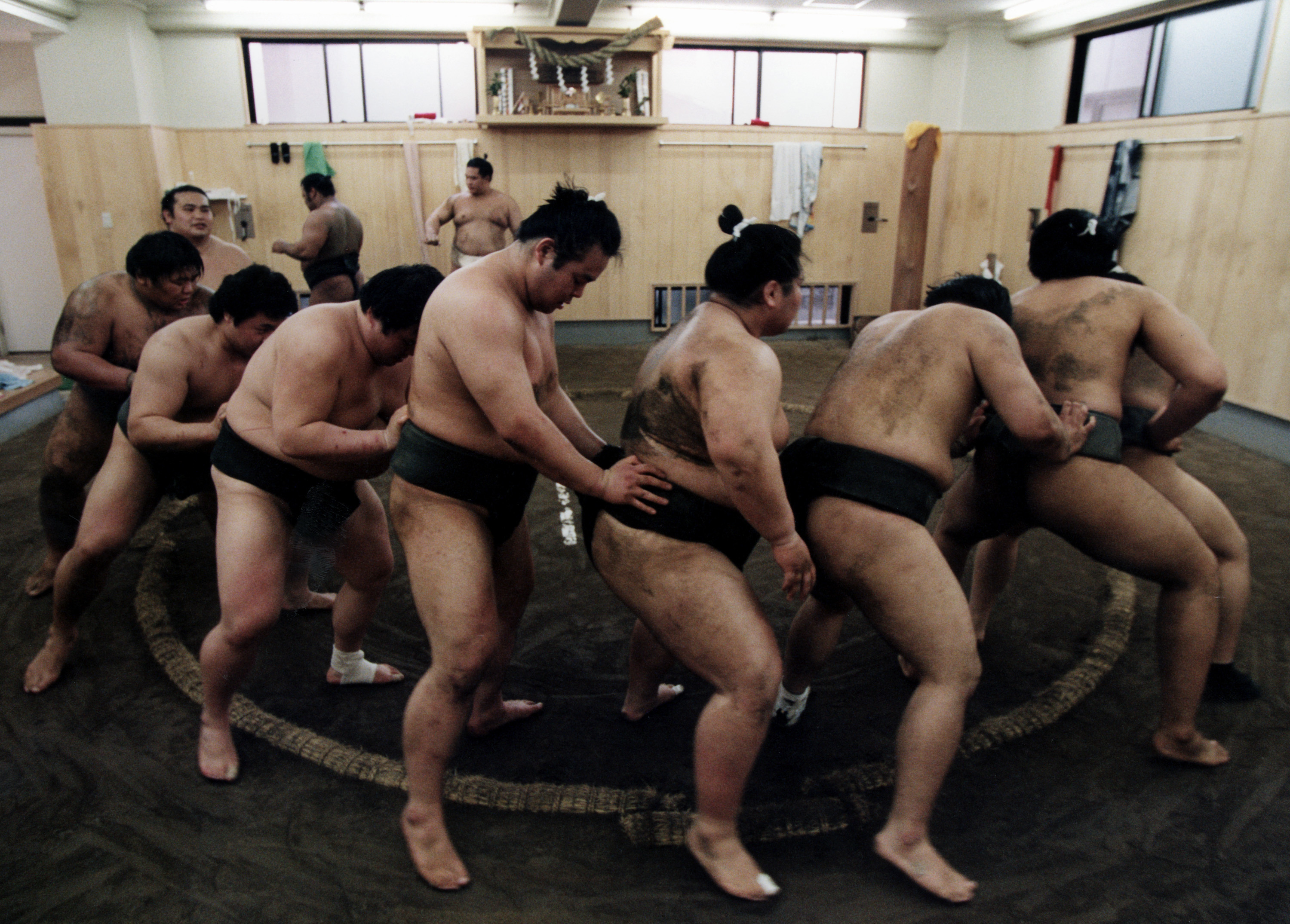 Unranked sumo wrestlers in training. Military Photographer of the Year Winner 1998 Title: Sumo Shuffle Category: Sports Place: First Place Sports. On May 2, 1998, young unranked sumo wrestlers at the Tomozuma Stable in Tokyo end their daily workout routine with a ritualized dance that emphasizes teamwork. Henry Miller (background, center left), son of a retired Air Force Master Sgt. stationed near Tokyo when Miller was born, is one of a burgeoning number of foreign hopefuls that wish to make it in the sport's highly insular world. Camera Operator: PH1 (AW) M. CLAYTON FARRINGTON Date Shot: 1 Jan 1998